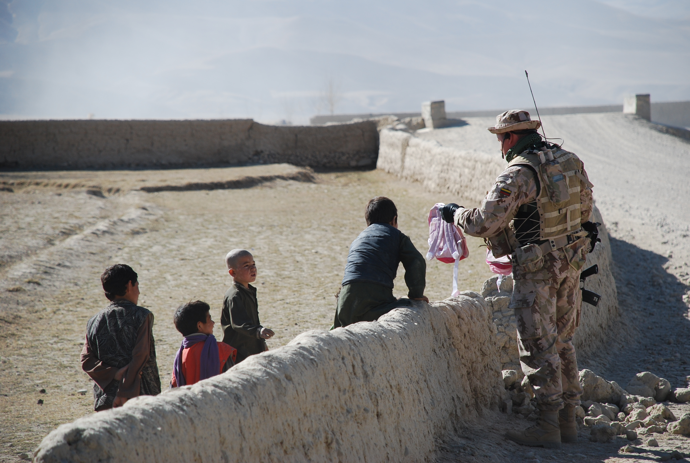 Lithuanian PRT in Chaghcharan giving school bags to children. Photo by Tomas Balkus of Lithuania.